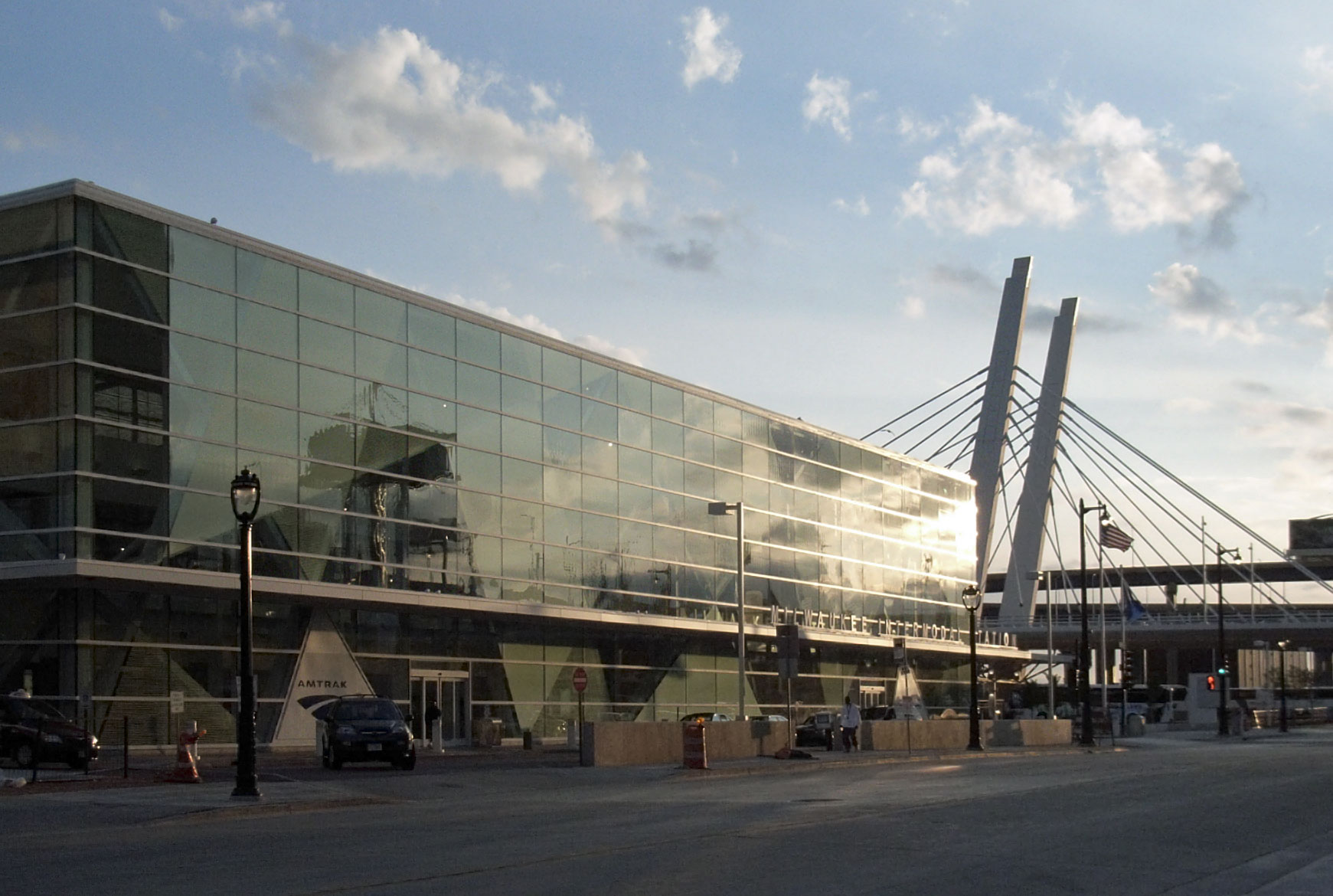 Milwaukee Intermodal Station and 6th Street Bridge at sunset. Photo uploaded to Flickr by user "Payton Chung." Released under Creative Commons license: Attribution 2.0 Generic.